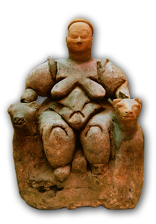 Seated Mother Goddess flanked by two lionesses from Çatalhöyük (Turkey), Neolithic age (about 6000-5500 BCE), today in Museum of Anatolian Civilizations in Ankara